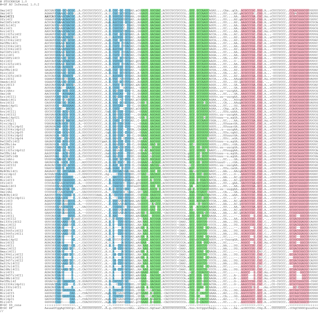 Ar14 annotated alignment structure conservation